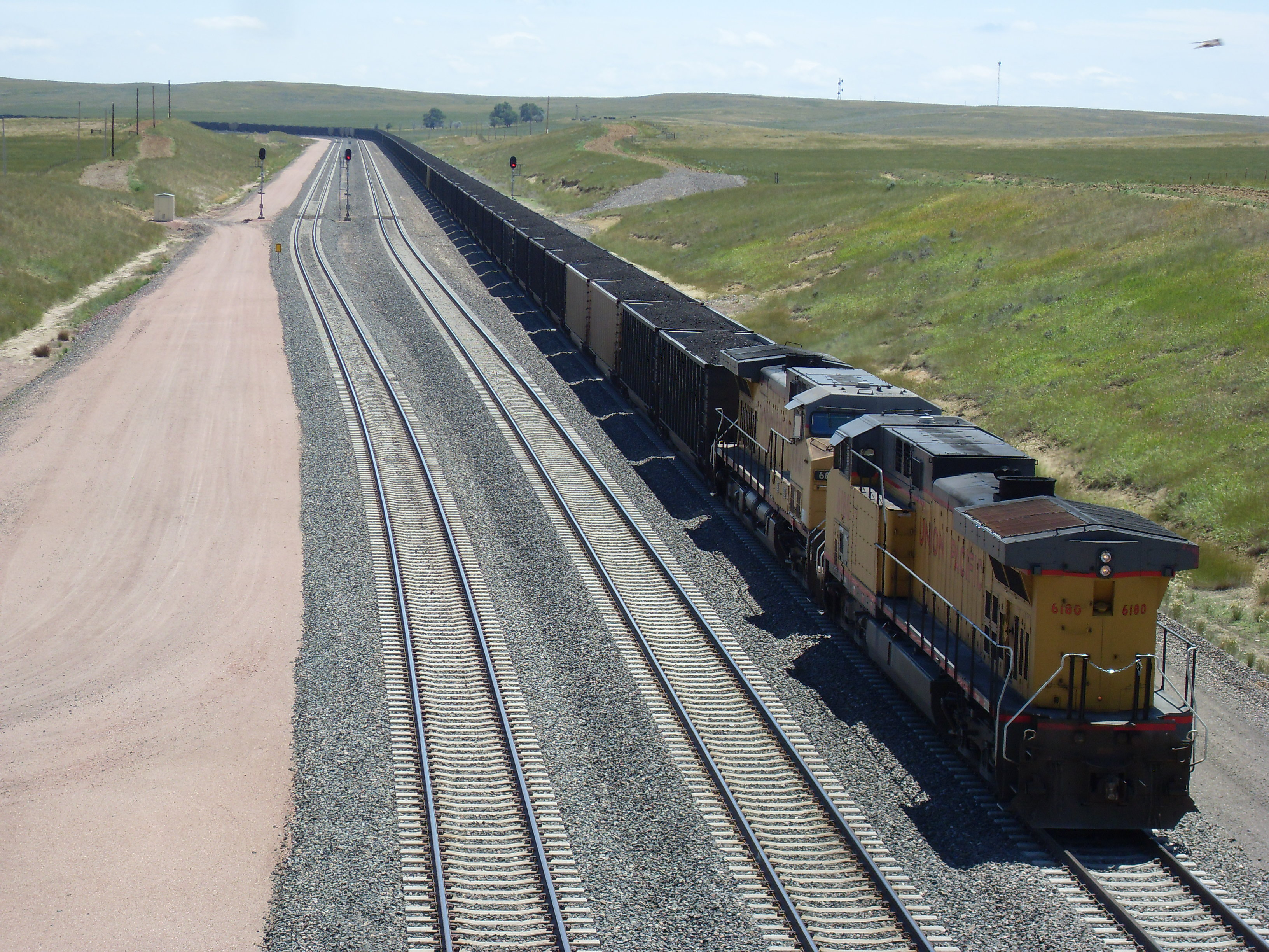 Union Pacific coal train with two locomotives (at the end) in Converse County close to Douglas, Wyoming USA